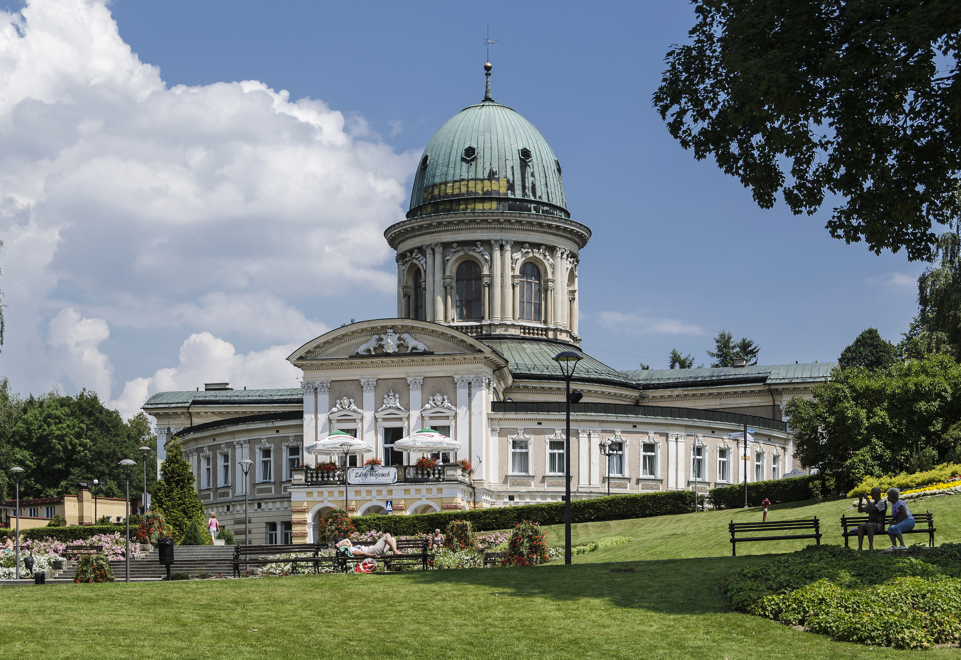 Wojciech Sanatorium in Lądek-Zdrój